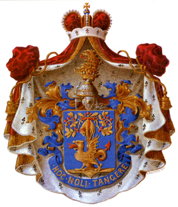 Coat of arms of the Most Serene Prince Dadian of Mingrelia.